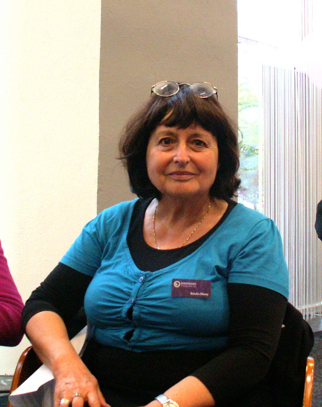 Katalin Mezey at the Göteborg Book Fair.